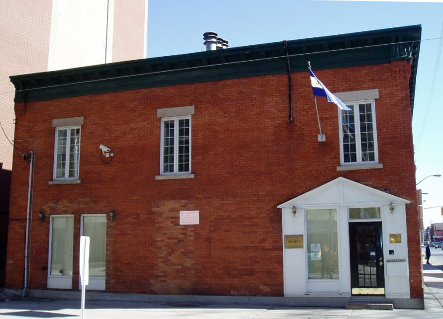 The Embassy of El Salvador in Ottawa.